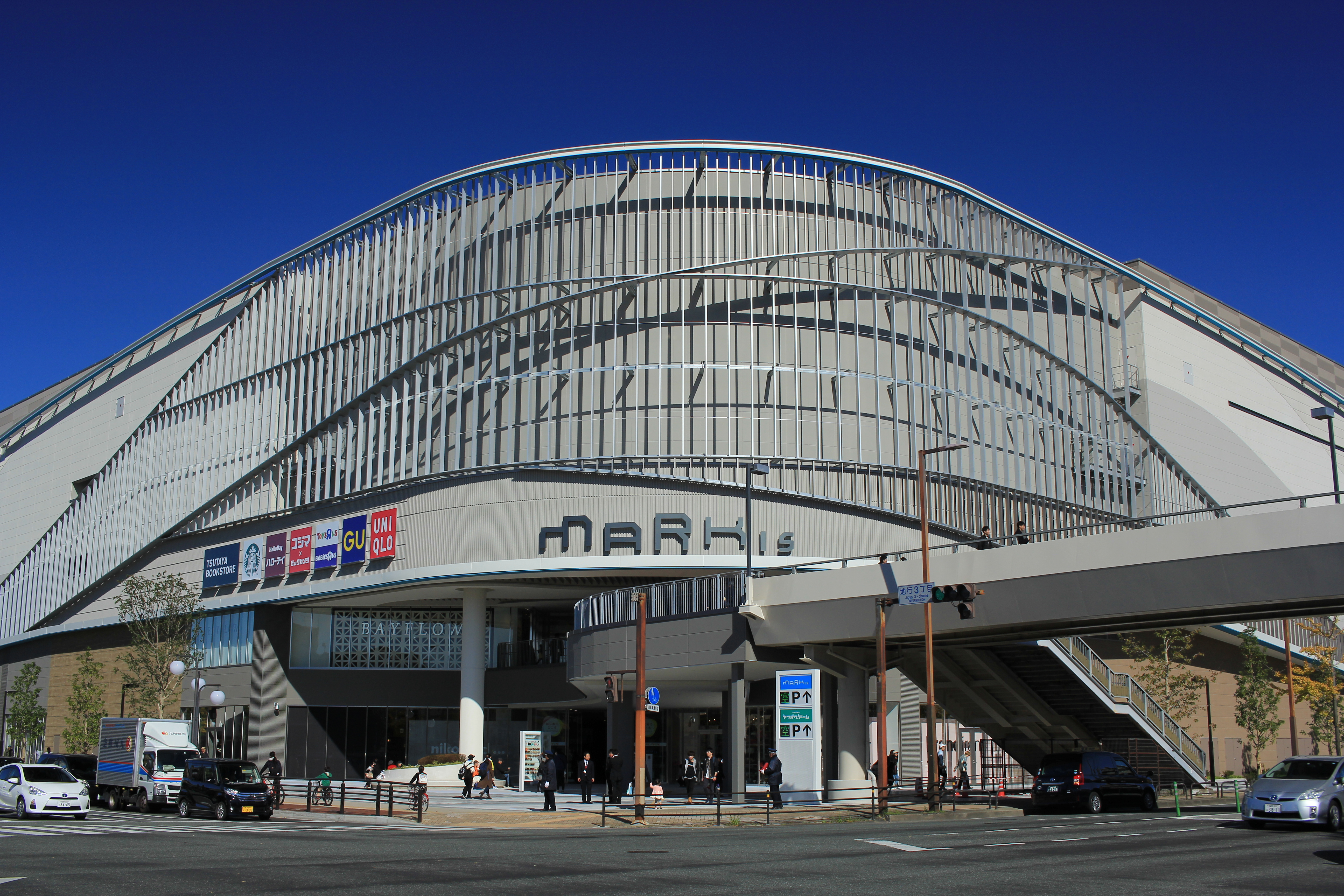 MARK IS Fukuoka-momochi, Fukuoka, Japan Canon EOS 60D